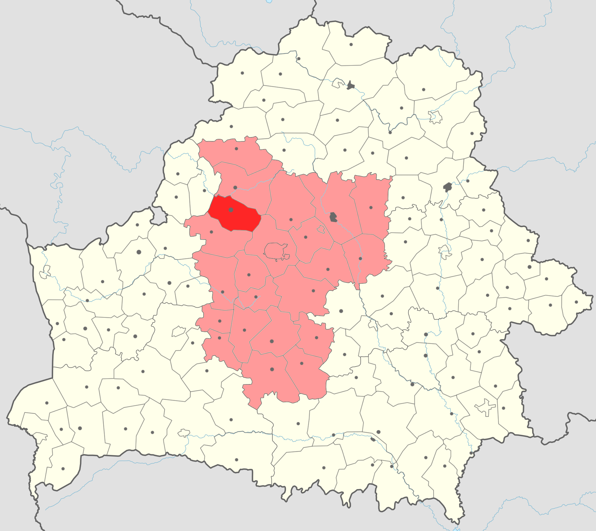 Map of Maladziechna (Molodechno) rayon (in red) with Minsk voblast' (in light red) on the map of Belarus.